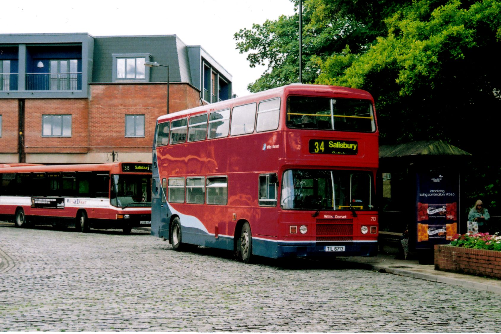 Wilts & Dorset 713 (TIL 6713, originally G713 WDL), a Leyland Olympian, in new livery at Romsey bus station on route 34. This bus from transferred to Wilts & Dorset from Southern Vectis in June 2007. The bus behind it is Optare Delta 3506 (L506 AJT).